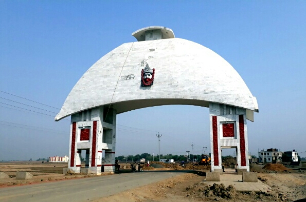 Gateway of Tarapith town, Birbhum